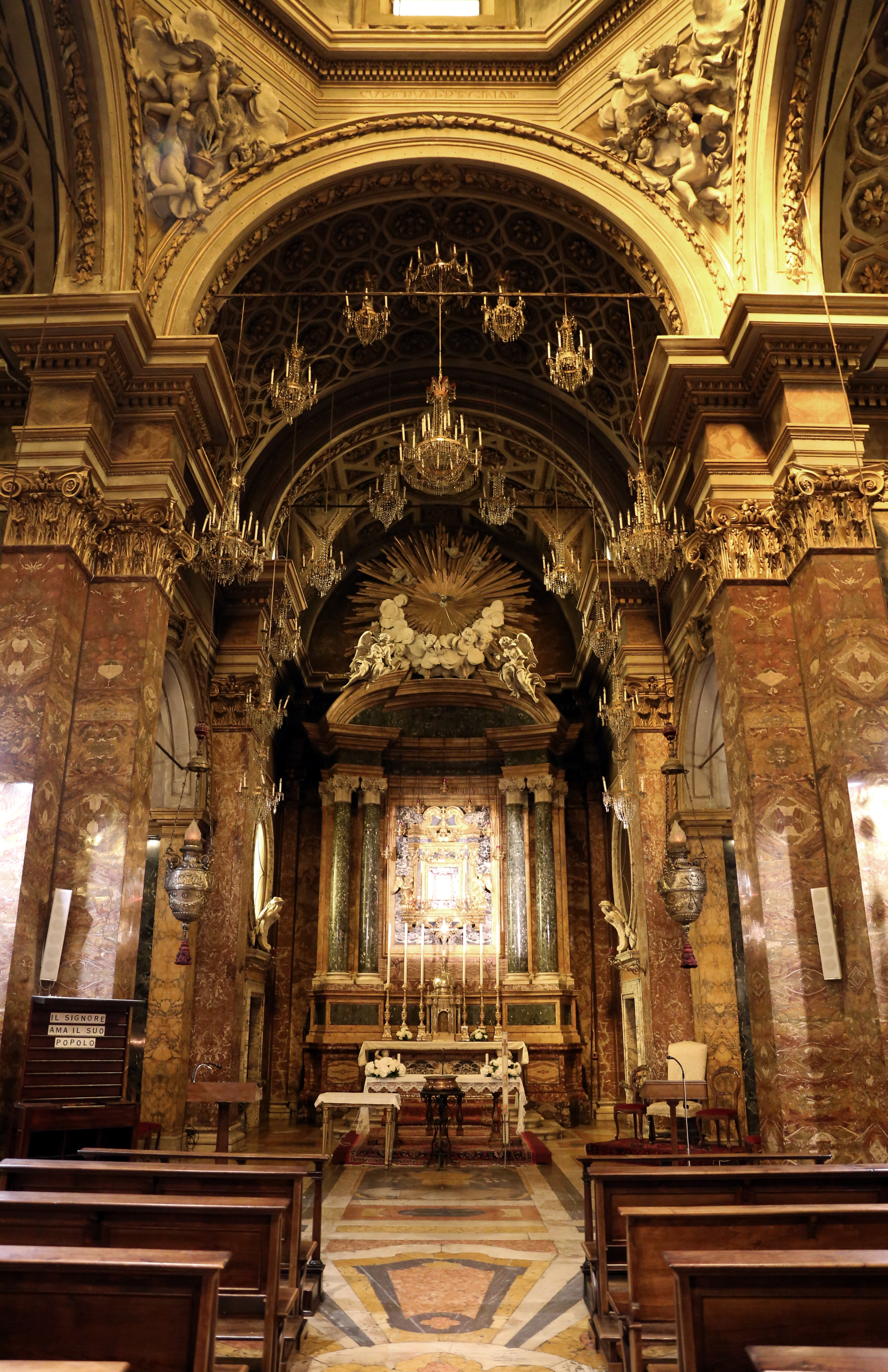 Duomo (Forlì)